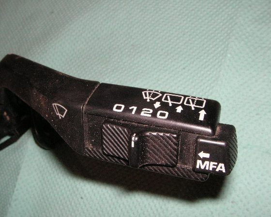 MFA switch for VW Passat 35i